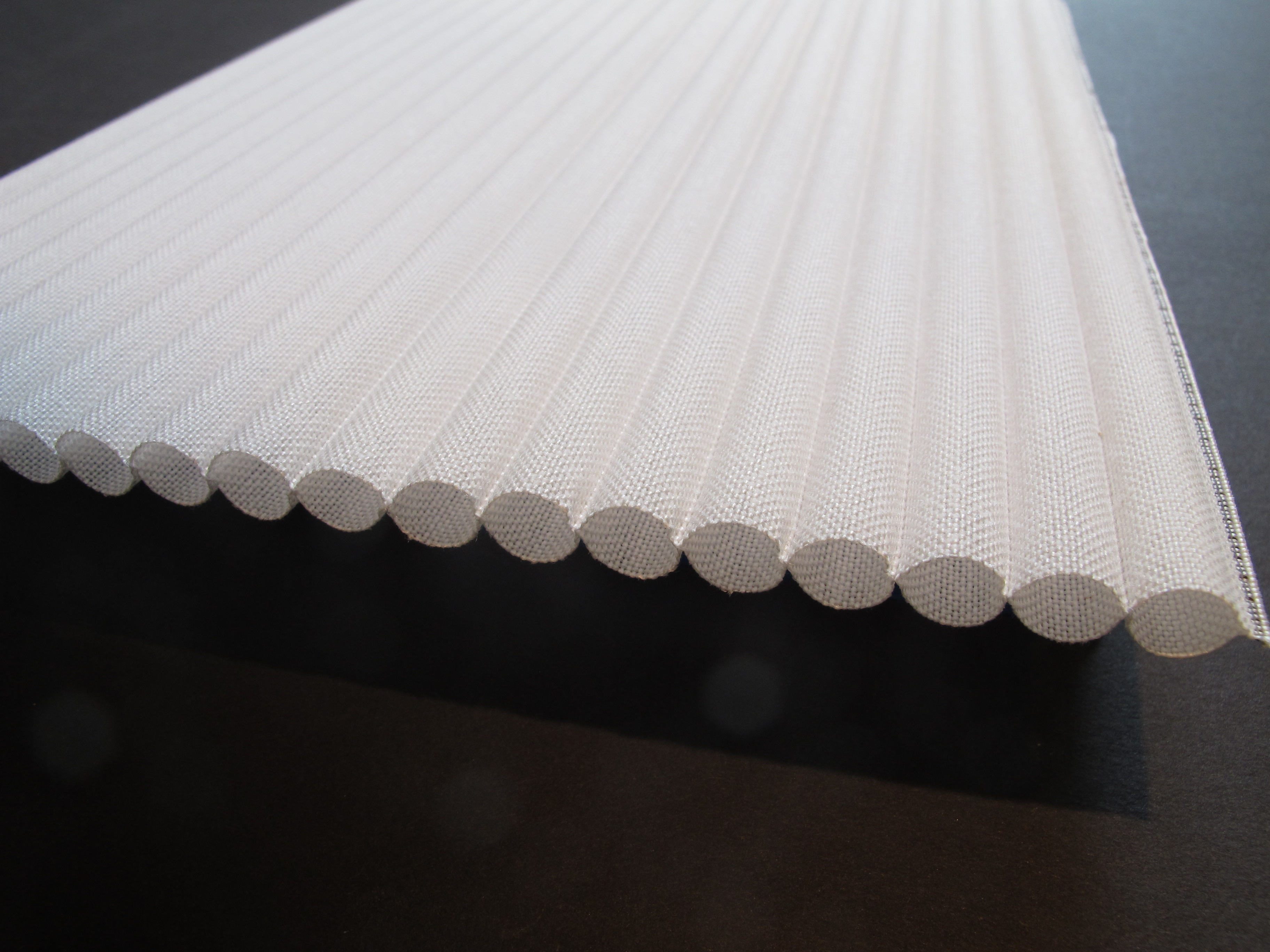 Example of a gauntlet with 19 tubes, made of woven polyester